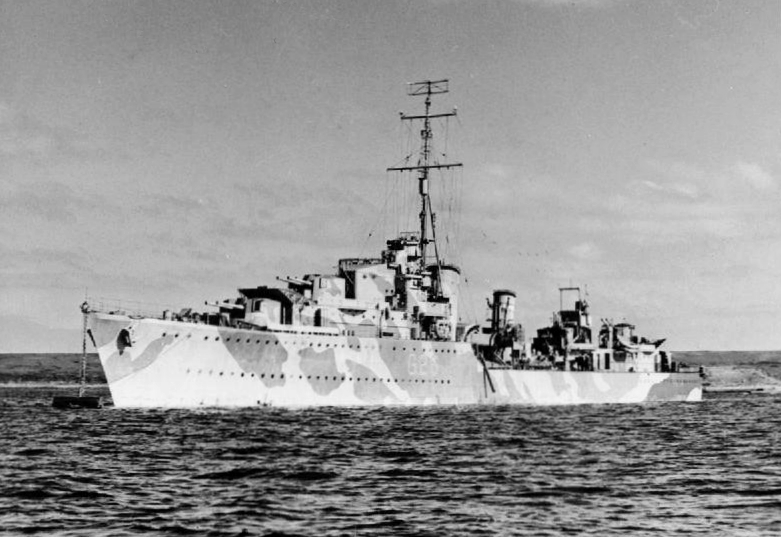 The British destroyer HMS Matabele (F26) moored.